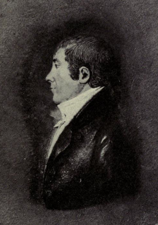 Wax portrait of composer Oliver Holden by John Christian Rauschner